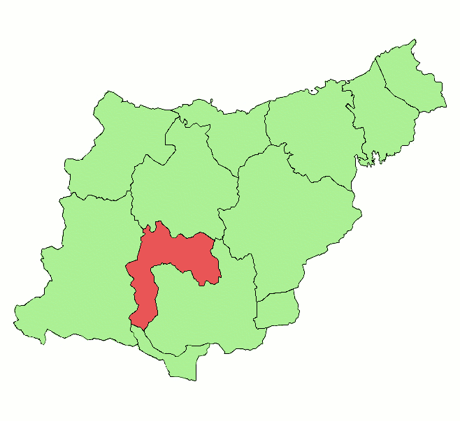 Urola Garaia region in the province of Gipuzkoa